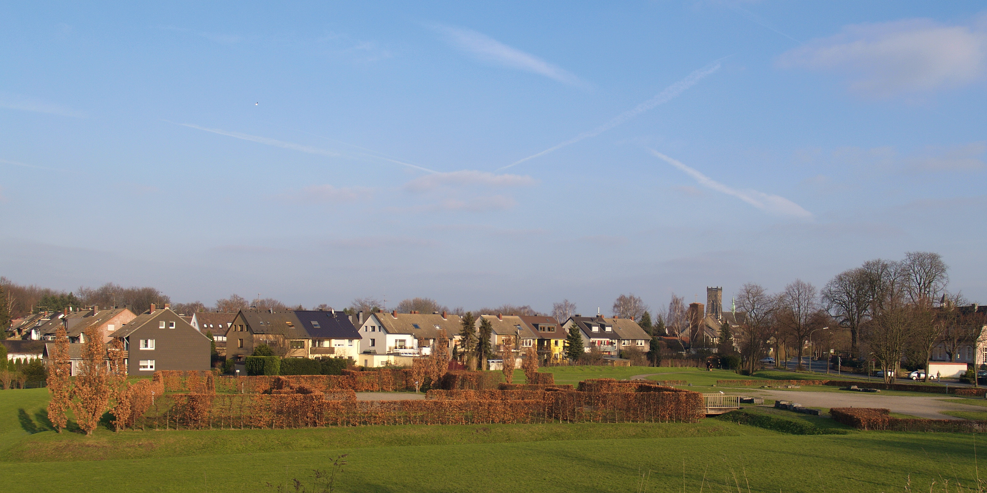 The place of the former Henrichenbug at Castrop-Rauxel, Germany, overview